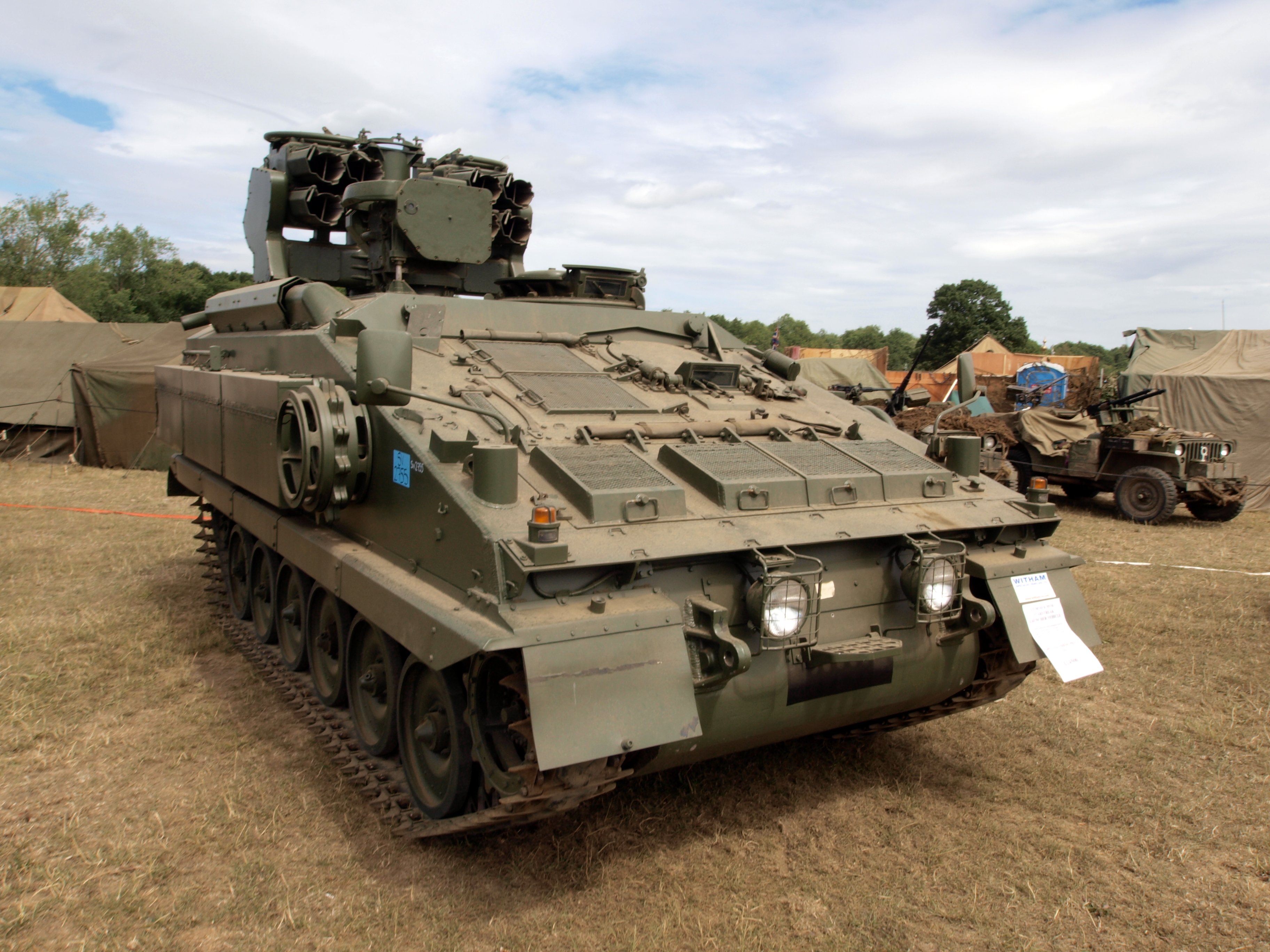 Stormer HVM Starstreak Launcher vehicle